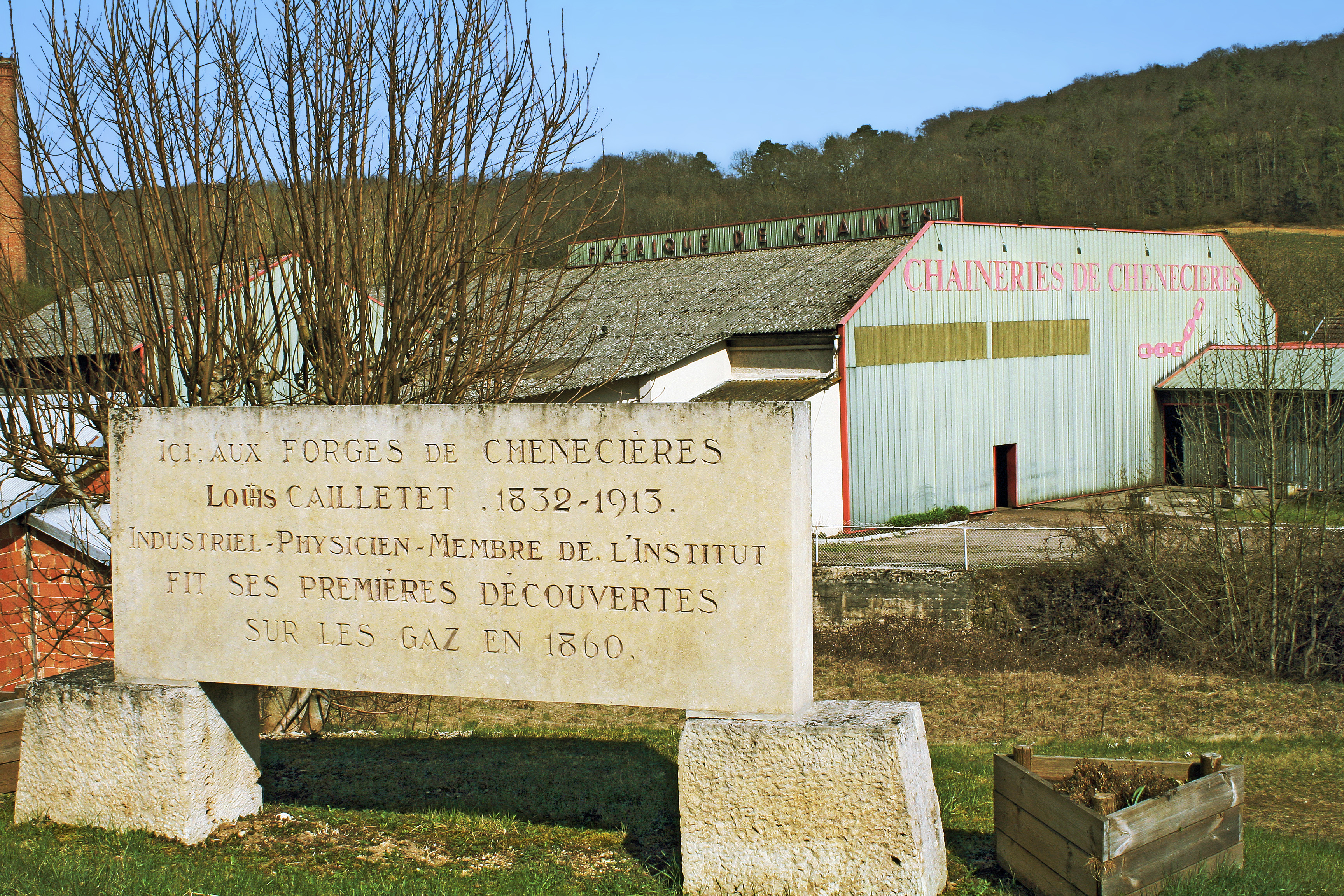 Monument à Louis Cailletet à Chenecières. Louis Cailletet était un chimiste qui a travaillé sur les gaz contenus dans l'acier chauffé et le premier à liquéfier l'oxygène en 1877.